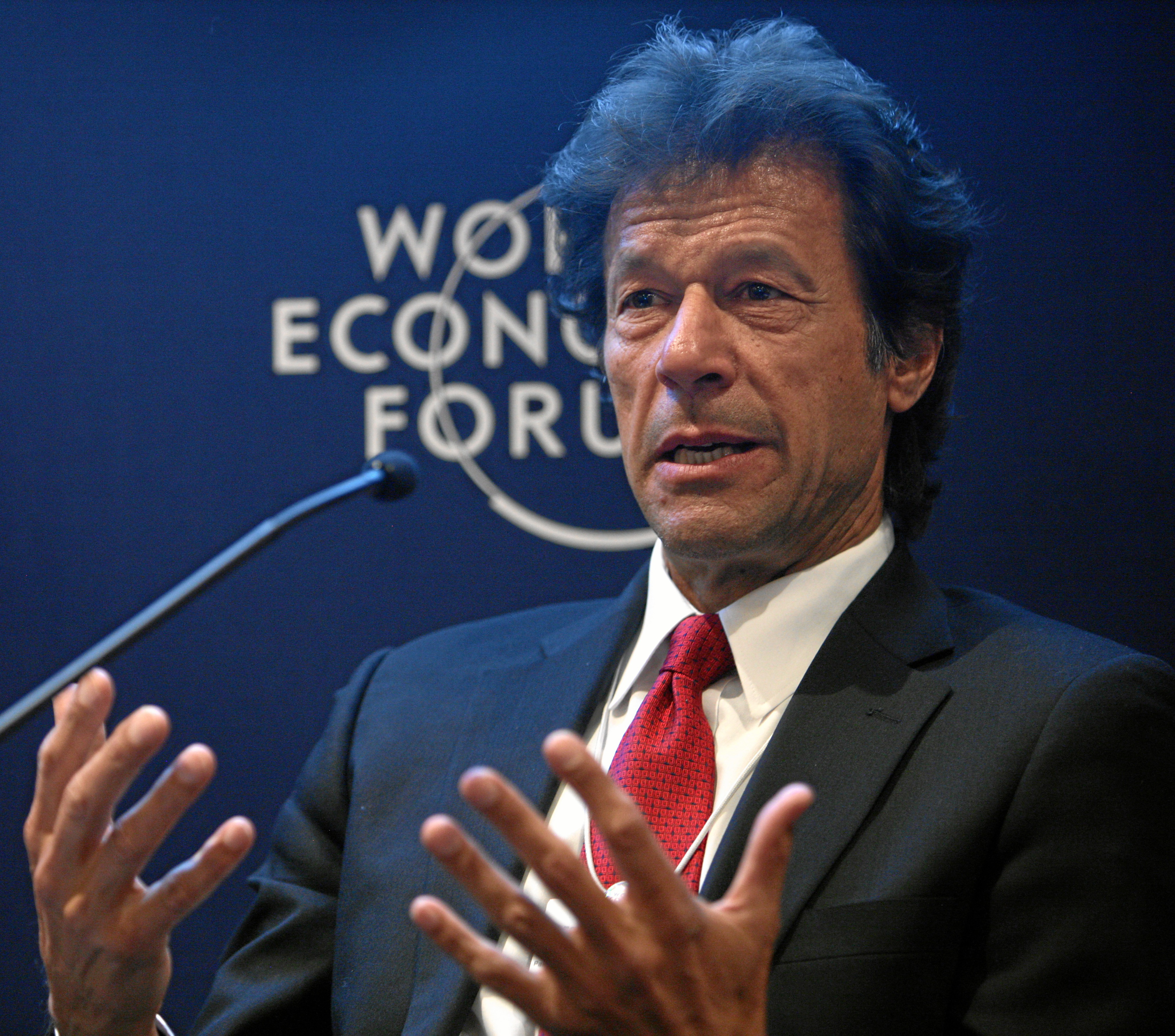 DAVOS/SWITZERLAND, 26JAN12 - Imran Khan, Chairman, Pakistan Tehreek-e-Insaf, Pakistan gestures during the session 'The Future of South Asia' at the Annual Meeting 2012 of the World Economic Forum in the congress center in Davos, Switzerland, January 26, 2012.. . Copyright by World Economic Forum. by Remy Steinegger